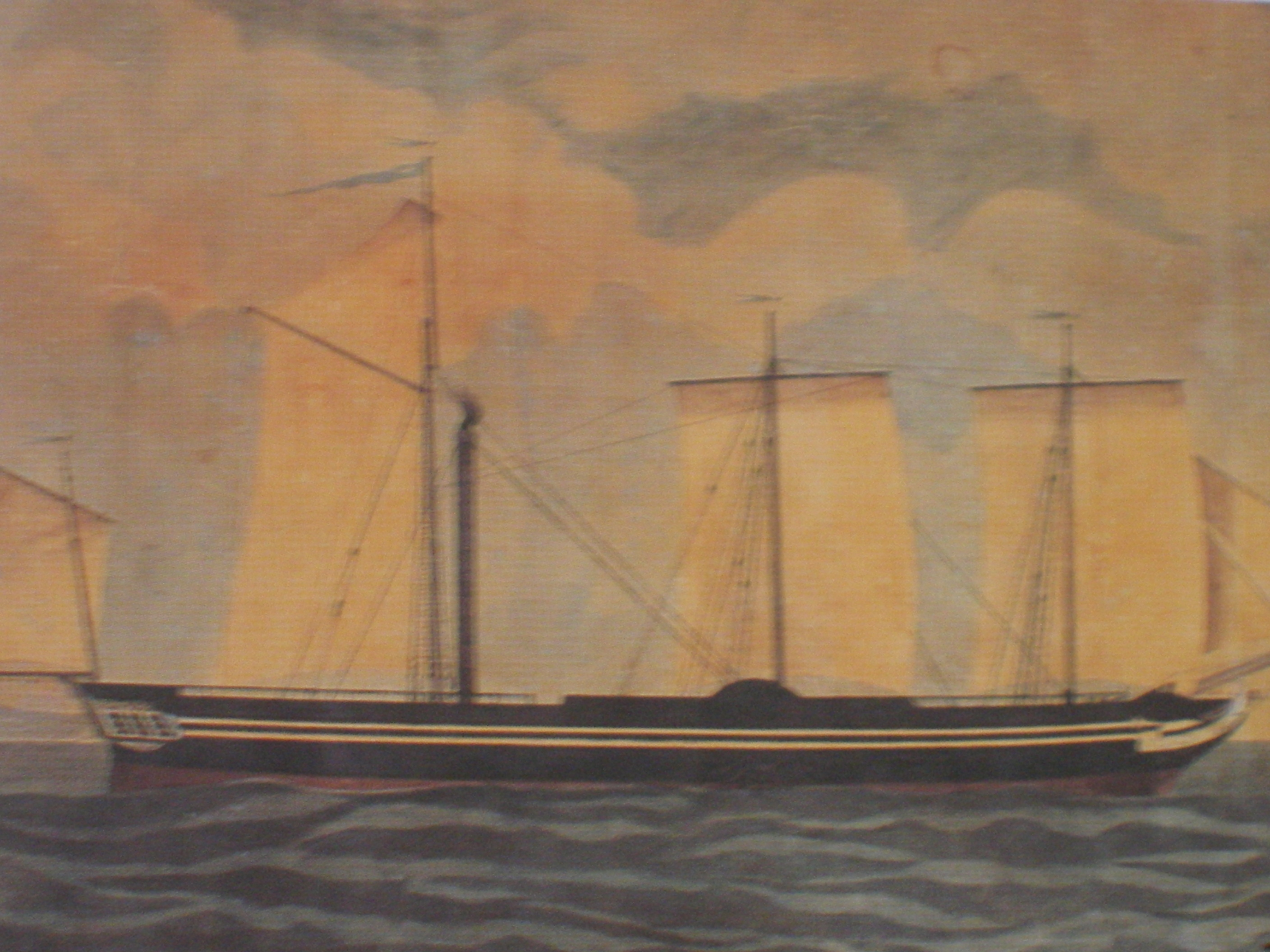 Own picture. Unsigned watercolour of steamship Karteria. Ship of the greek war of independence.